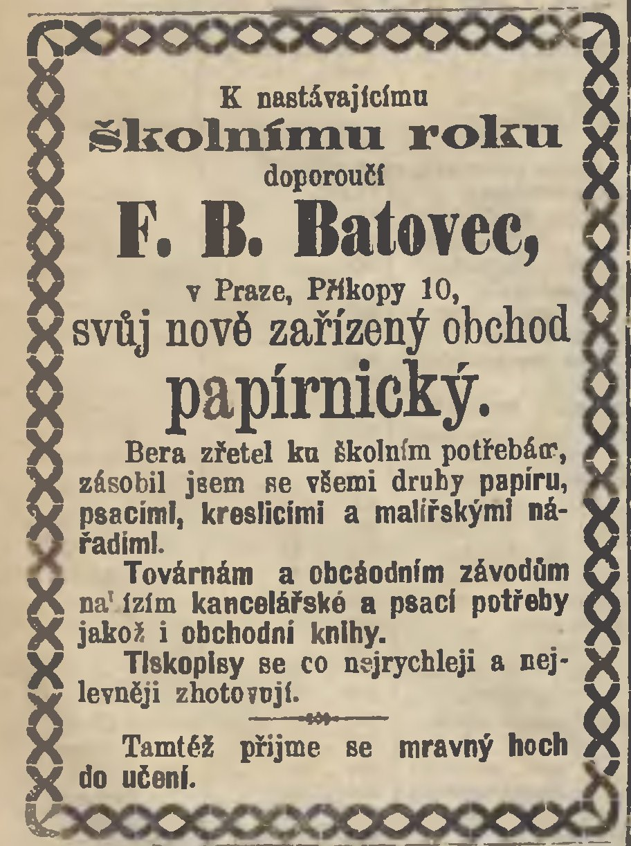 Classified advertisement of a newly opened stationery store of F. B. Batovec in Prague (present-day Czech Republic).